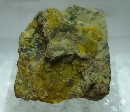 Humboldtine (Dimensions 13mm x 13mm x 4mm) Locality: Csordakúti Mine, Bicske-Csordakút, Bicske-Zsámbéki Basin, Fejér Co., Hungary Original description: Yellow crust Humboldtine on matrix; Photo and collection Fernando Brederodes.